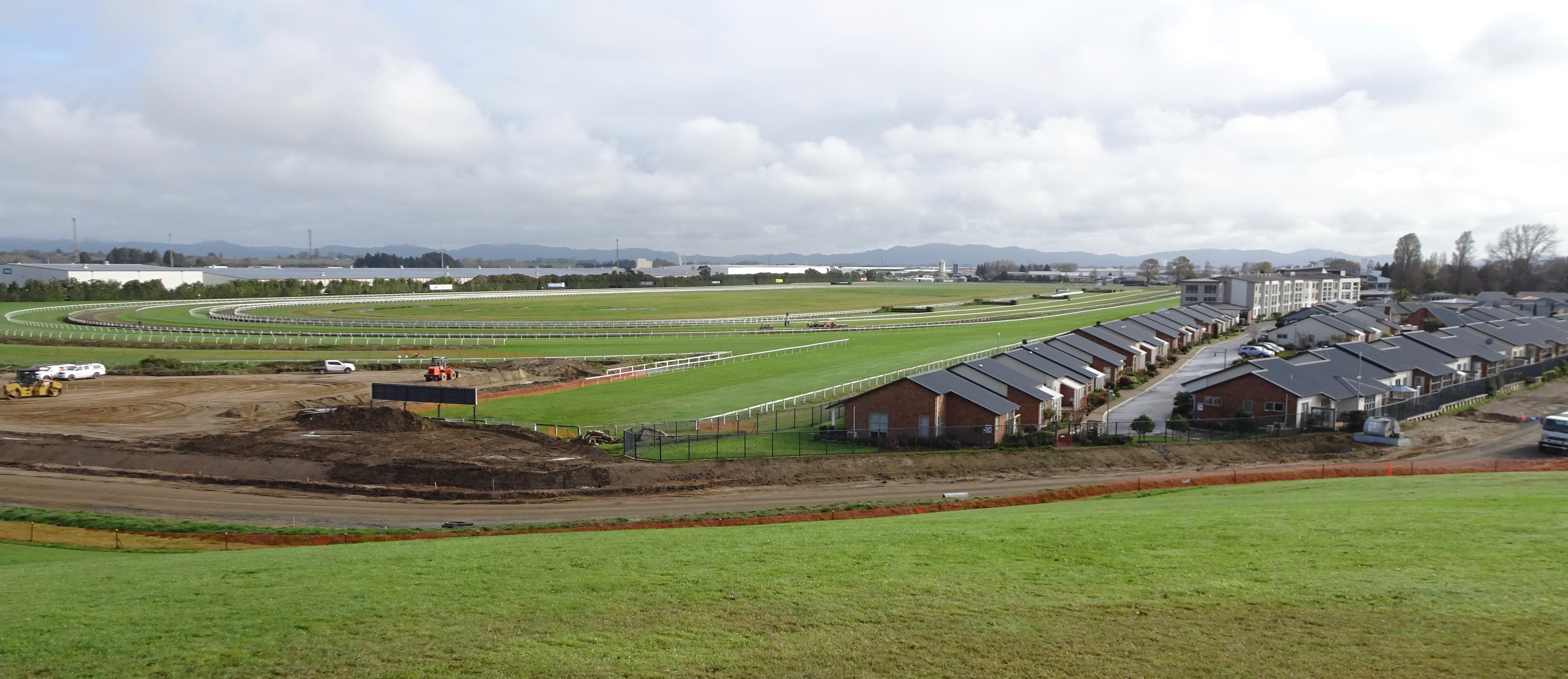 Te Rapa racecourse opened in 1924